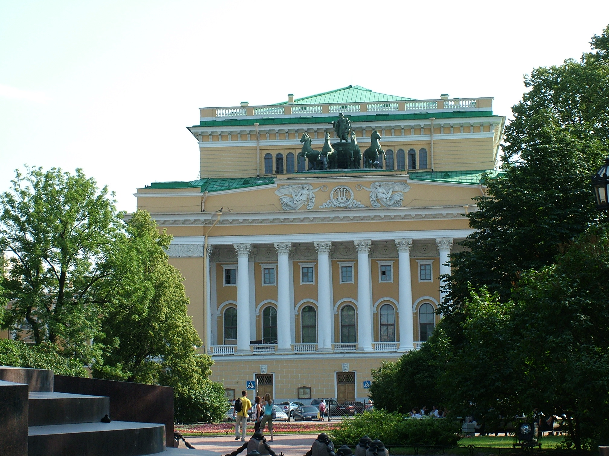 Saint Petersburg (Russia), Nevsky Avenue, Alexandrinsky Theatre.